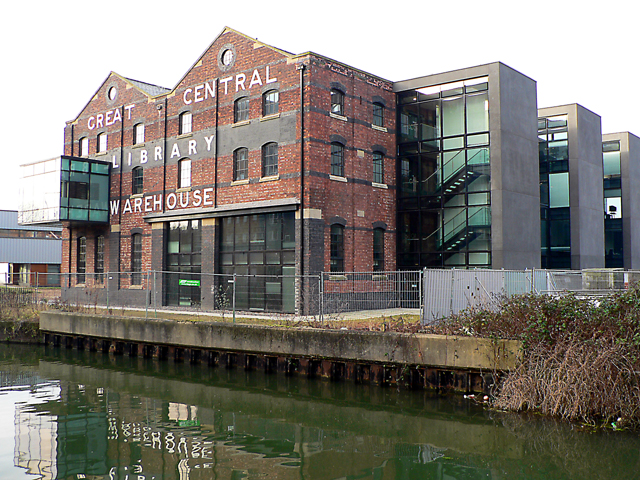 Lincoln University Library. Much of the university's Brayford campus was formerly railway sidings. The Great Central Railway Co warehouse on Brayford Wharf East is now the university library.